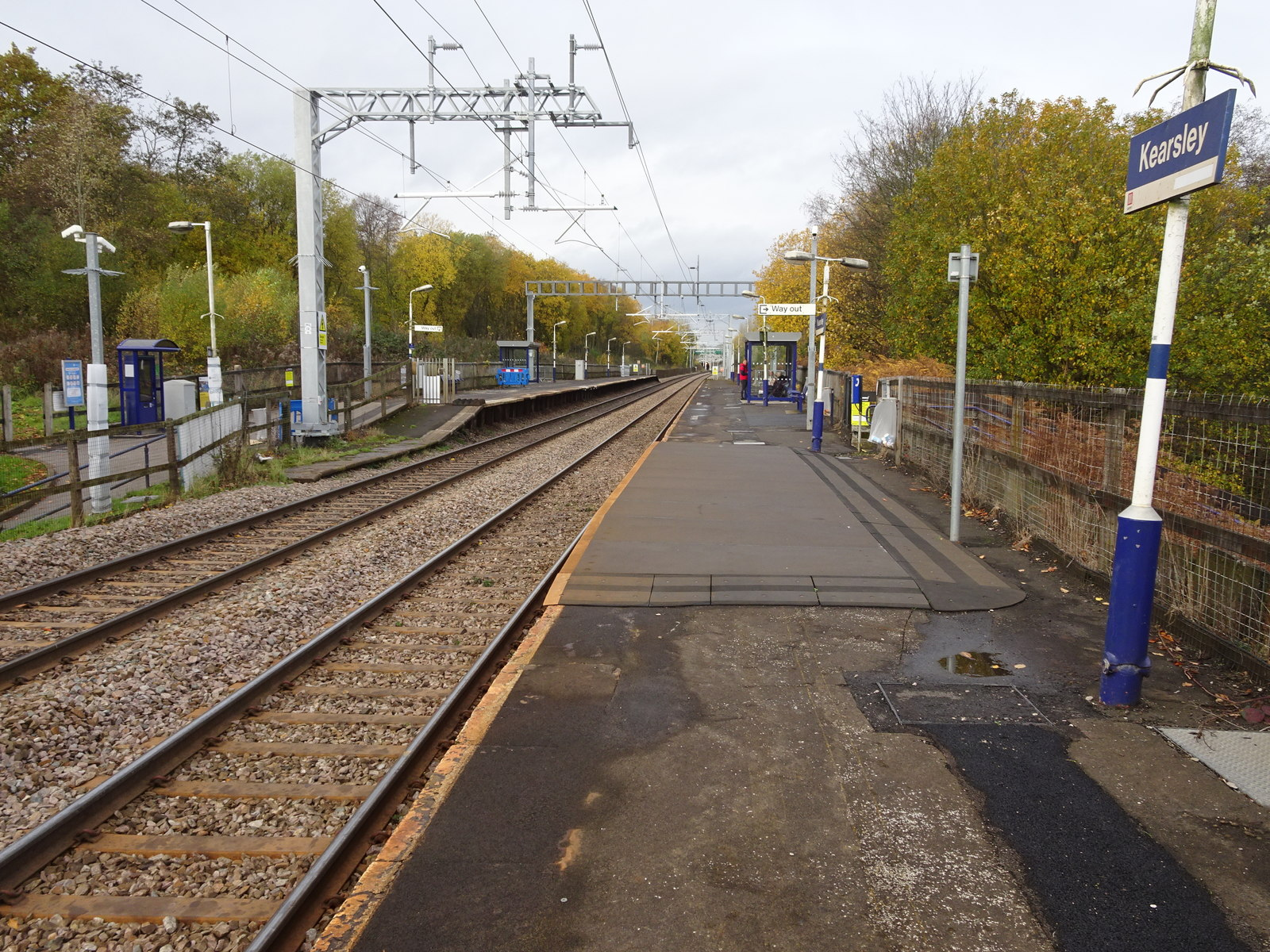 Kearsley railway station, Greater ManchesterOpened in 1838 as "Stoneclough" by the Manchester and Bolton Railway, later part of the Lancashire & Yorkshire Railway, this station's name was changed around 1900 (needs confirmation) to "Kearsley". View north west towards Farnworth and Bolton, shortly after the line was electrified.